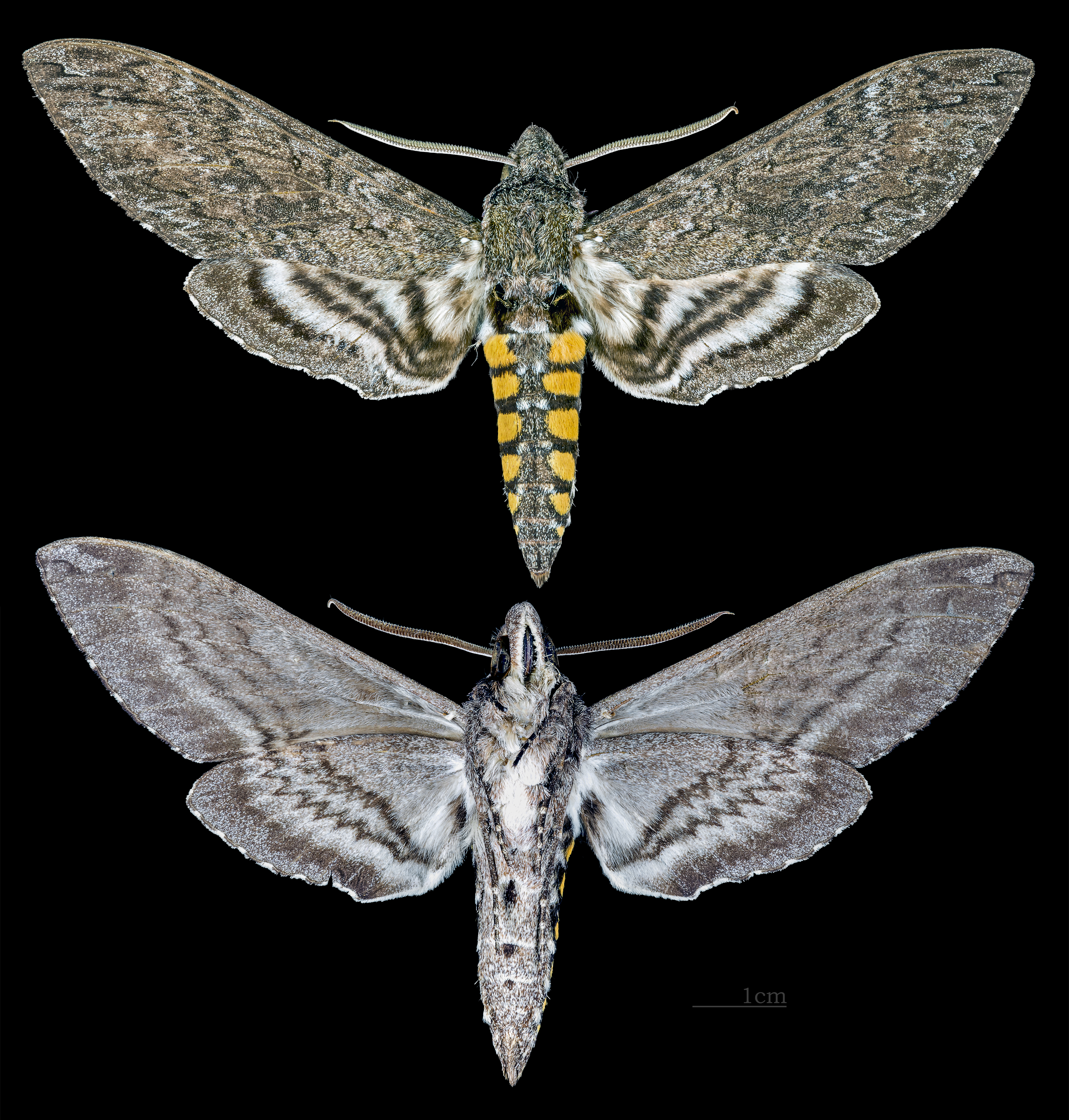 Manduca sexta - Two views of same specimen Collection of the Mathematician Laurent Schwartz